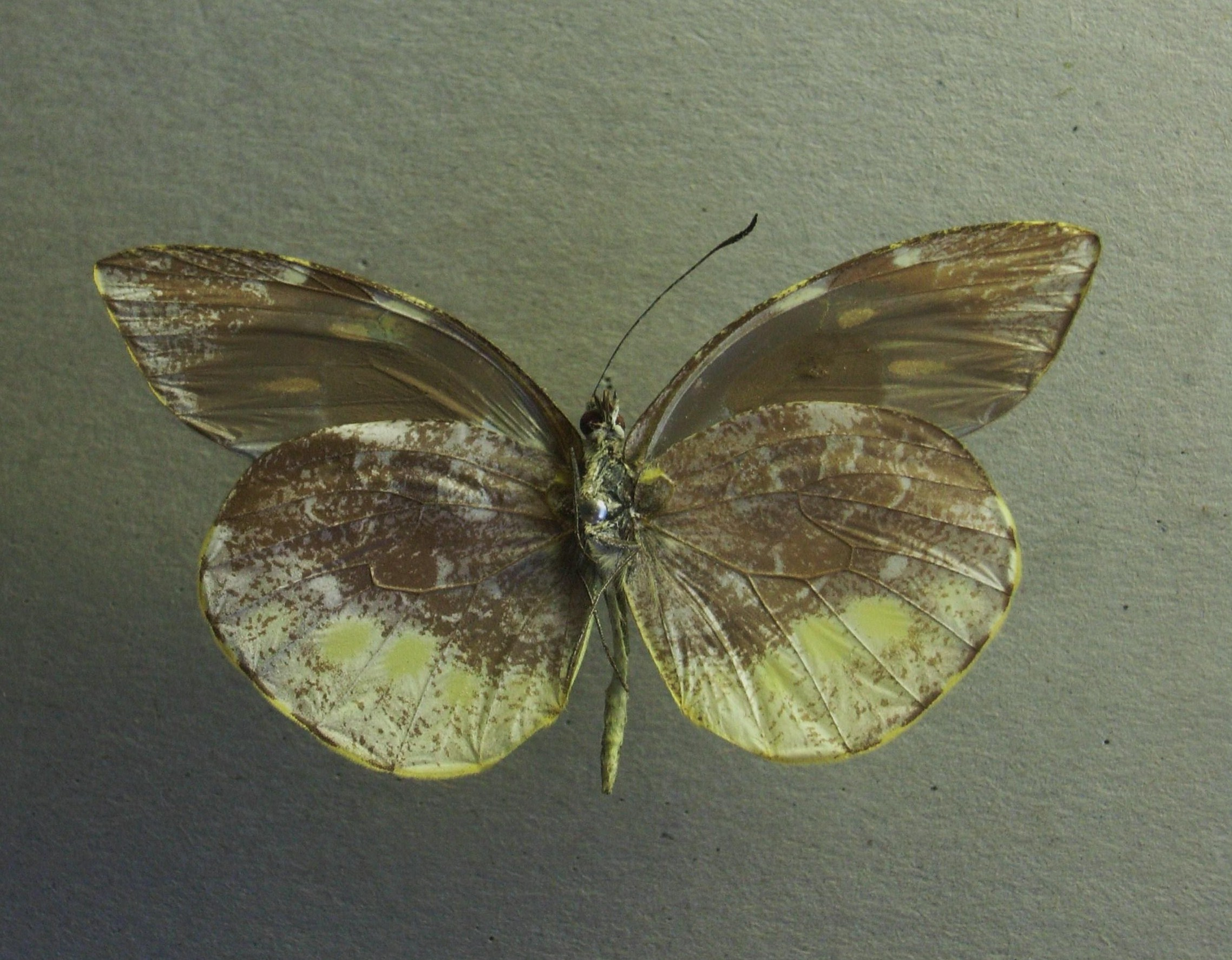 Dismorphia nemesis Capuse:Dismorphiinae:Pieridae Valid name Lieinix nemesis